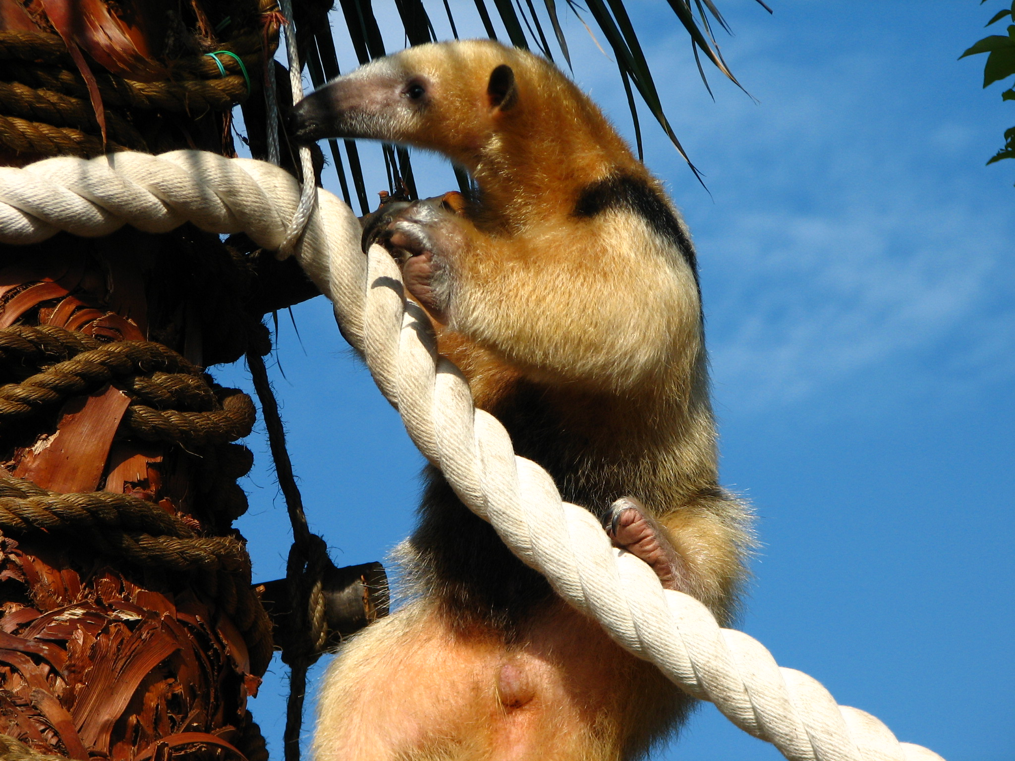 A Southern Tamandua (also known as Collared Anteater and Lesser Anteater) at Ueno Zoo, Tokyo, Japan.